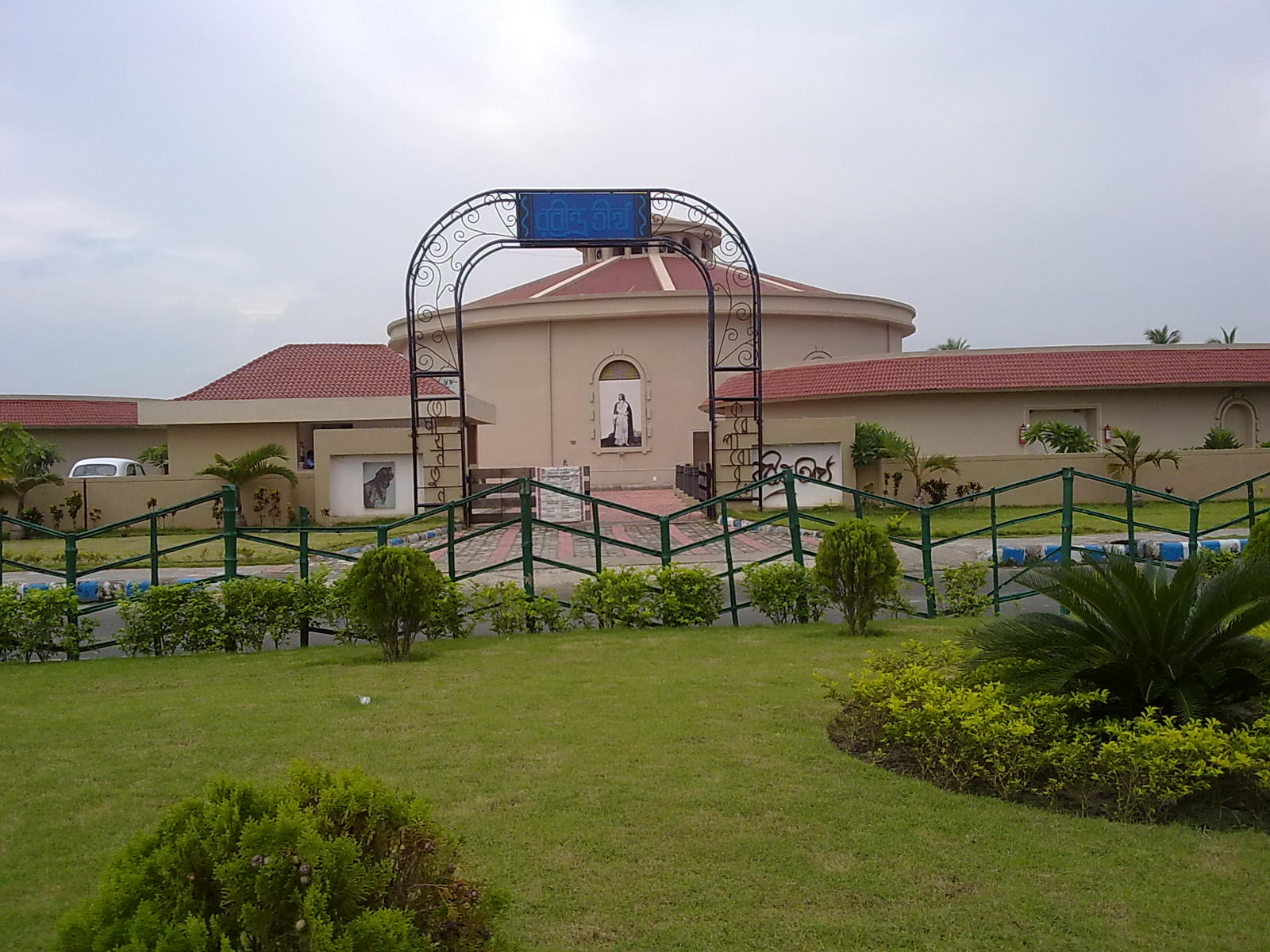 Front view of Rabindra Tirtha